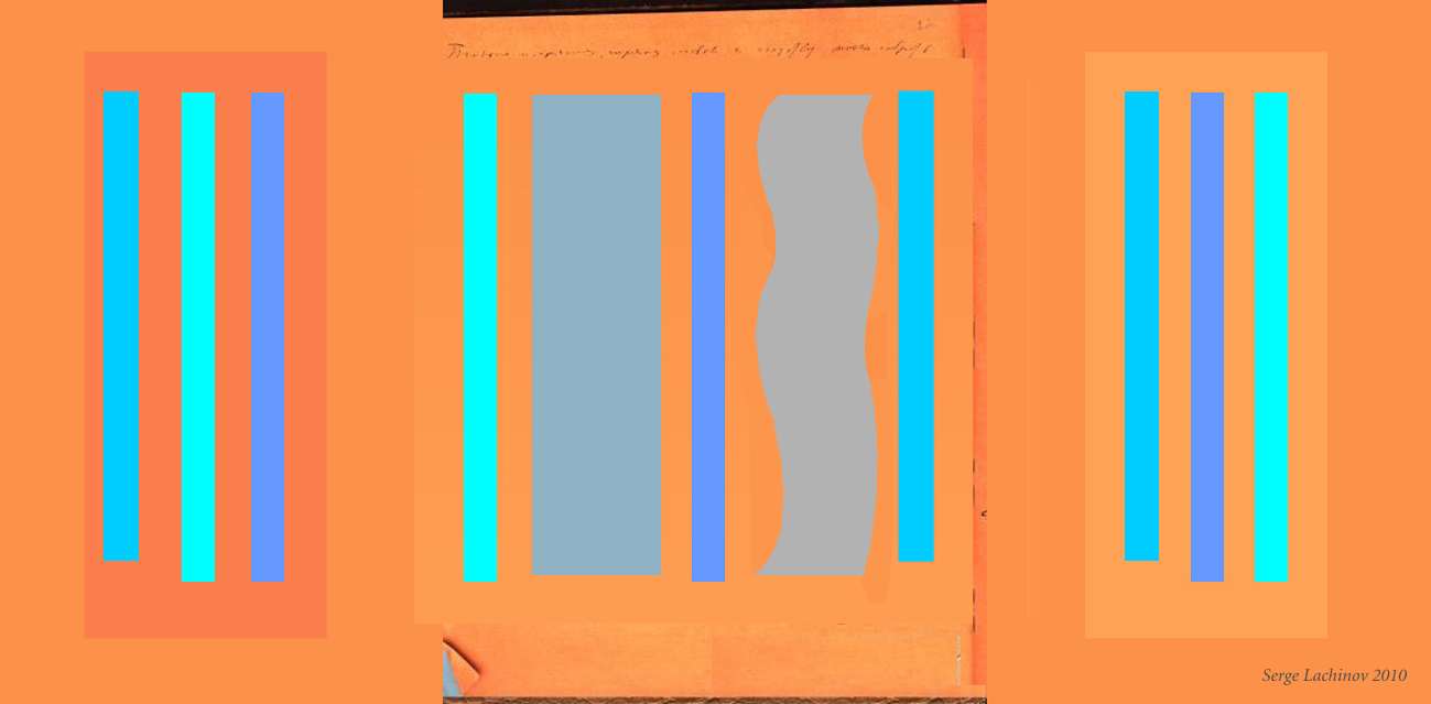 Serge Lachinov. Simple Expirience with one Achromatic Color. Mixed media. 2010